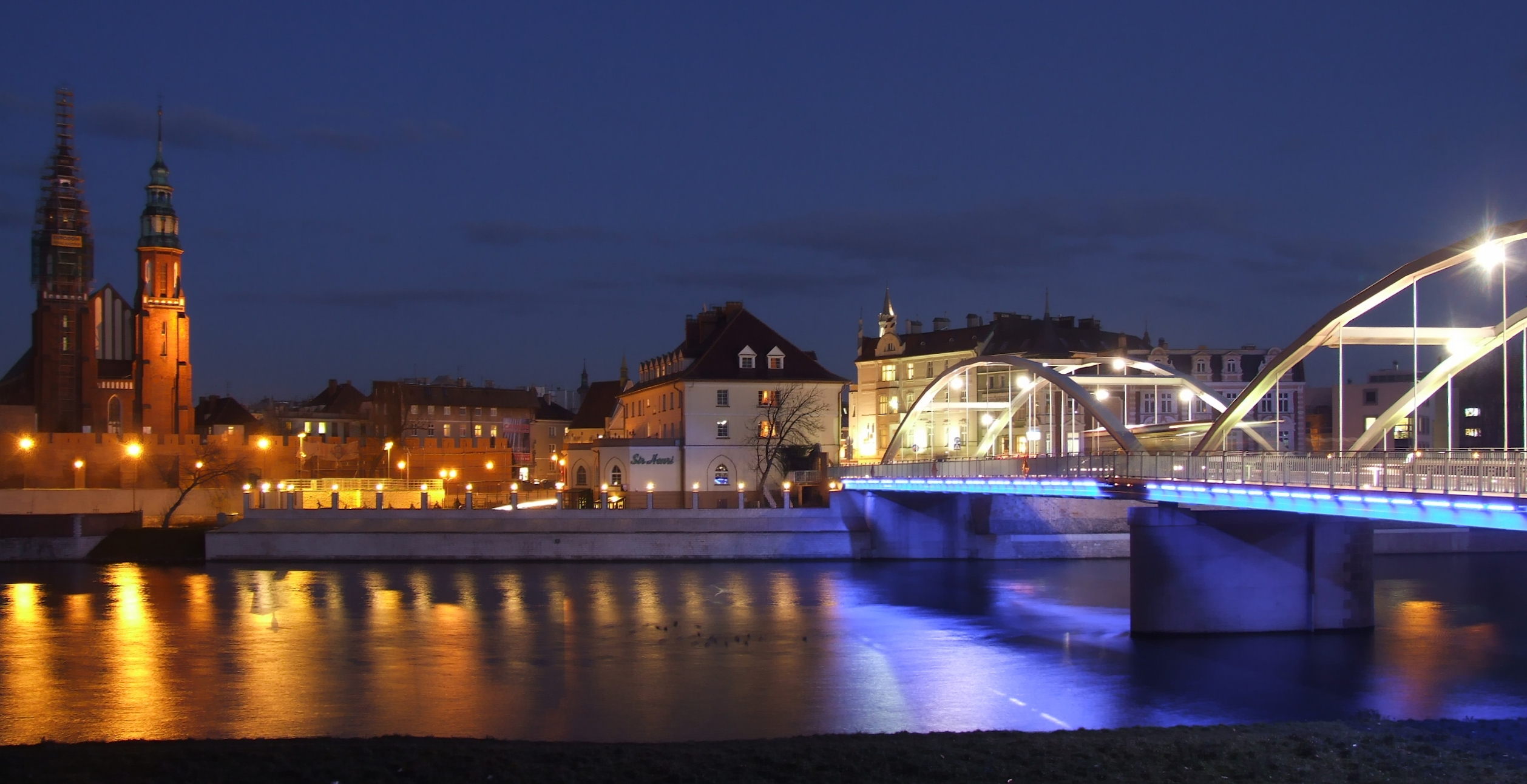 Opole (Oppeln) by night